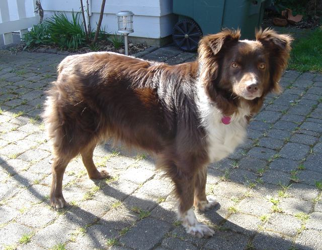 Red Australian Shepherd Female